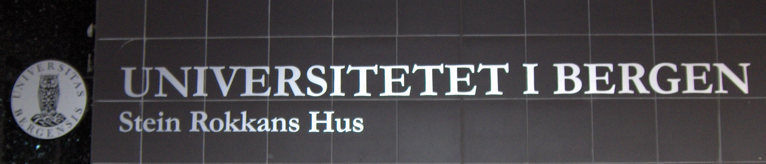 Pic shot by myself in February 2006 Front of one of the buildings of the Bergen University (Norway)